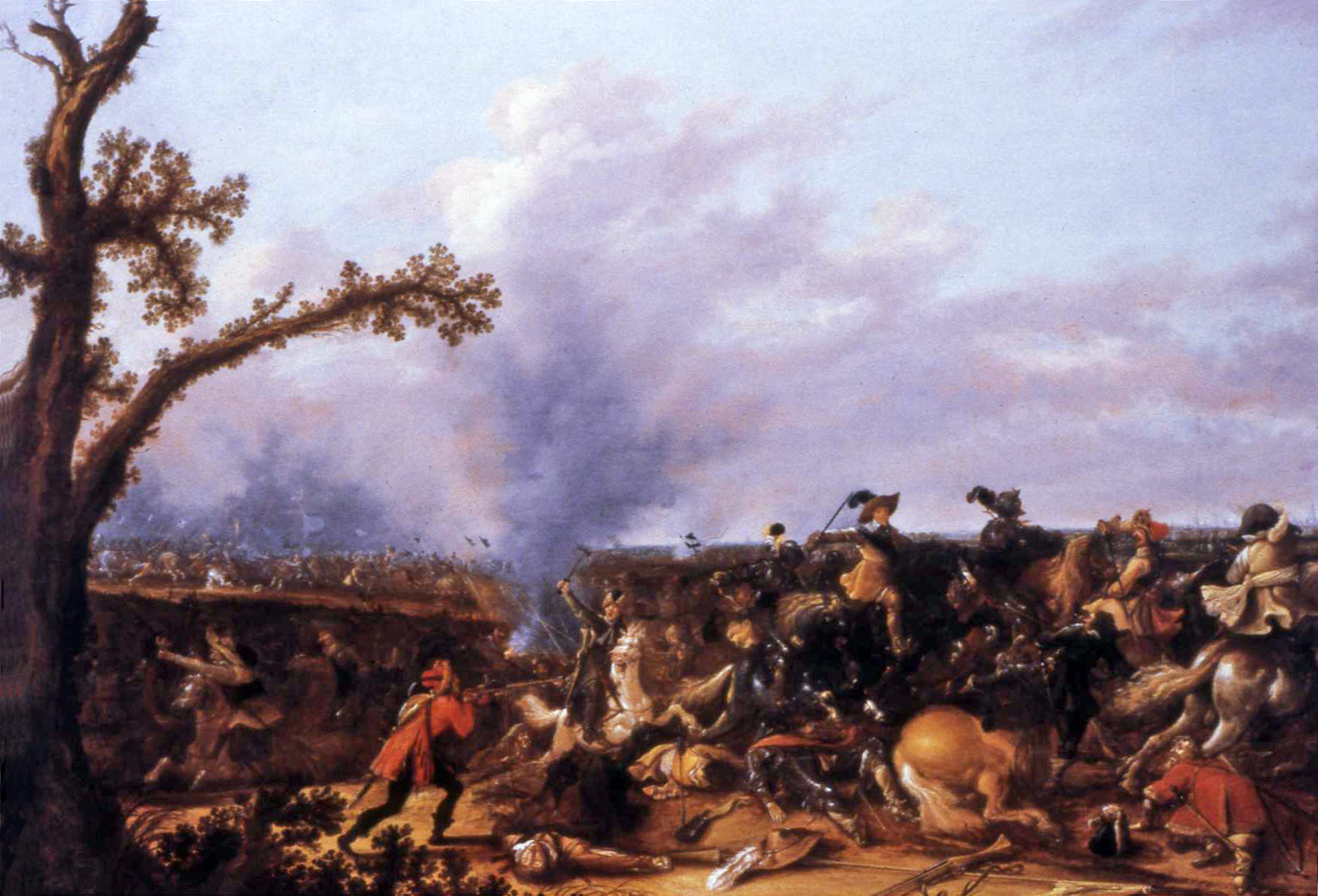 Gustavus Adolphus in the Battle of Lützen on November 6, 1632